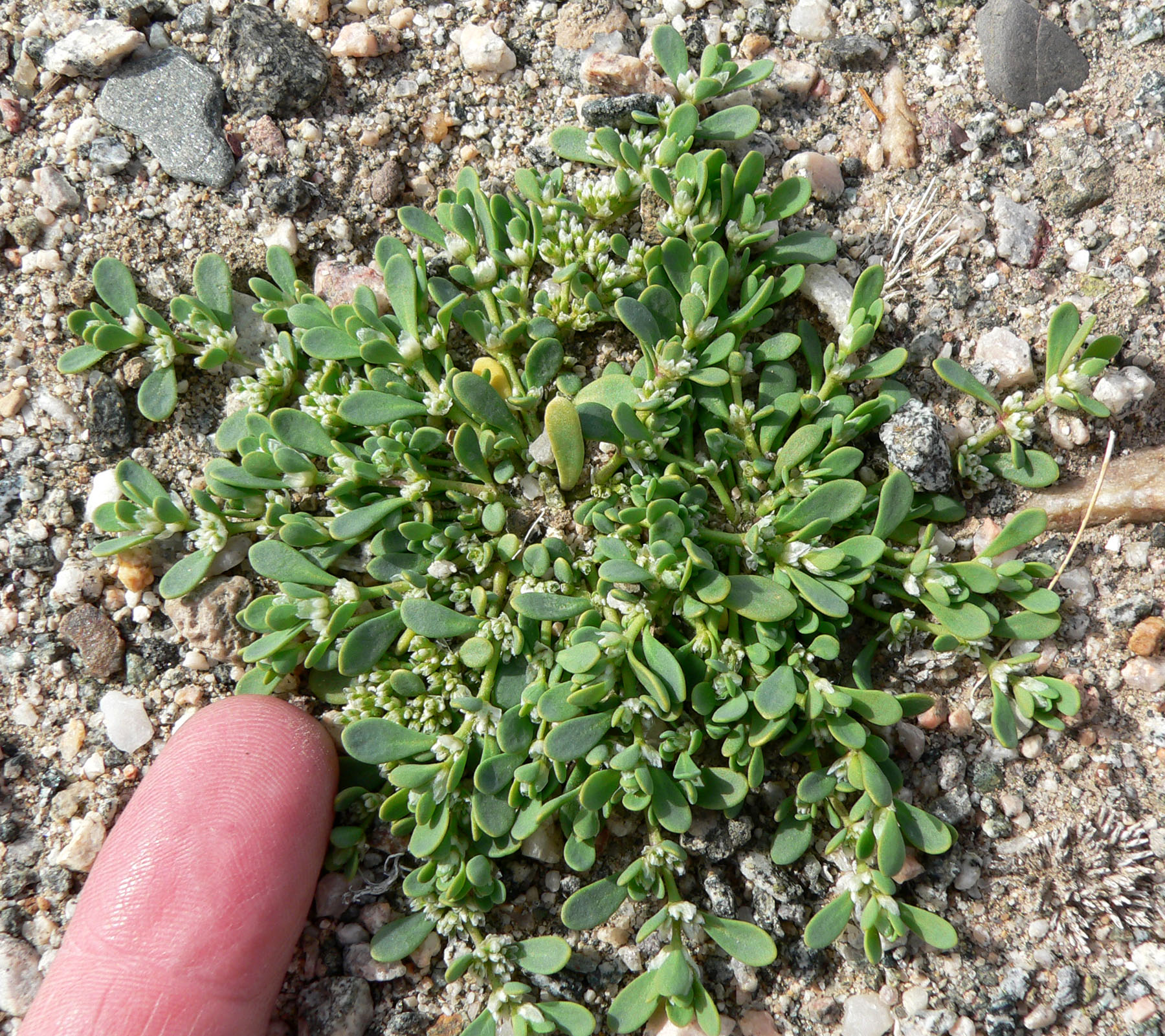 Achyronychia cooperi near the Salt Spring Hills at the southern end of Death Valley, California